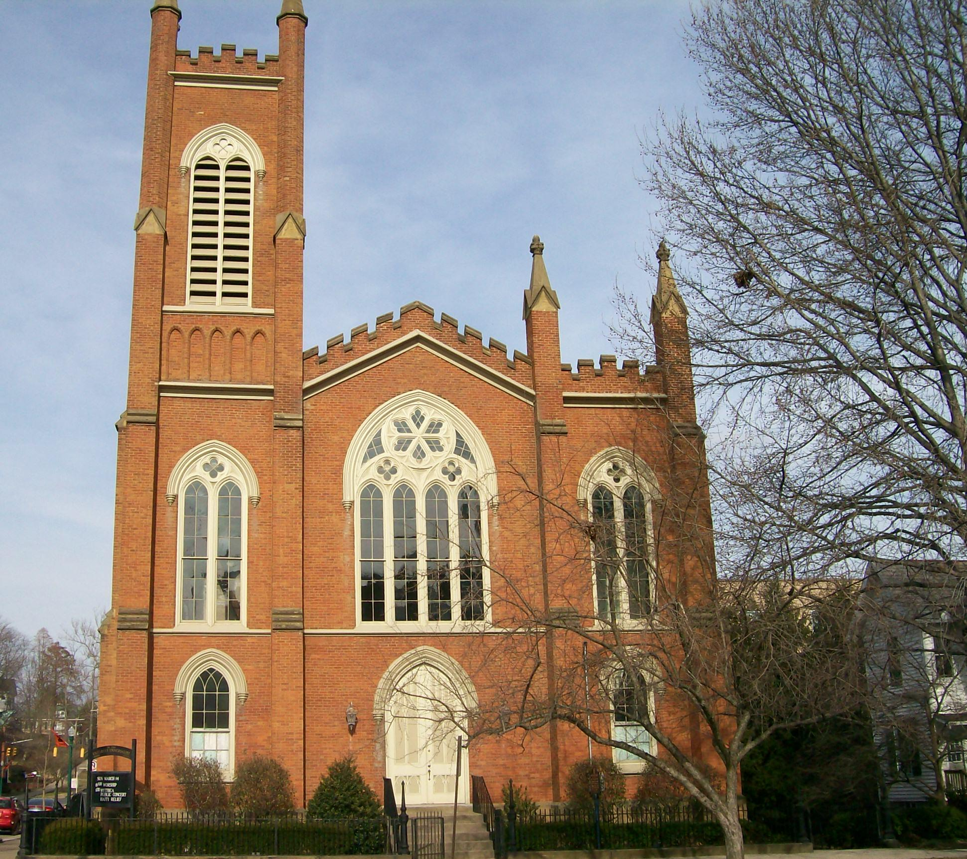 The First Unitarian Church of Marietta, Ohio. The southwestern face of the church is photographed and faces 3rd Street. The church is listed on the NRHP for Washington County. Taken March 10, 2010.